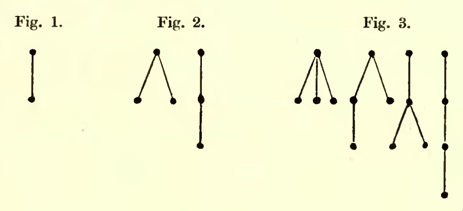 First image of a graph as mathematical structure in a paper of Arthur Cayley